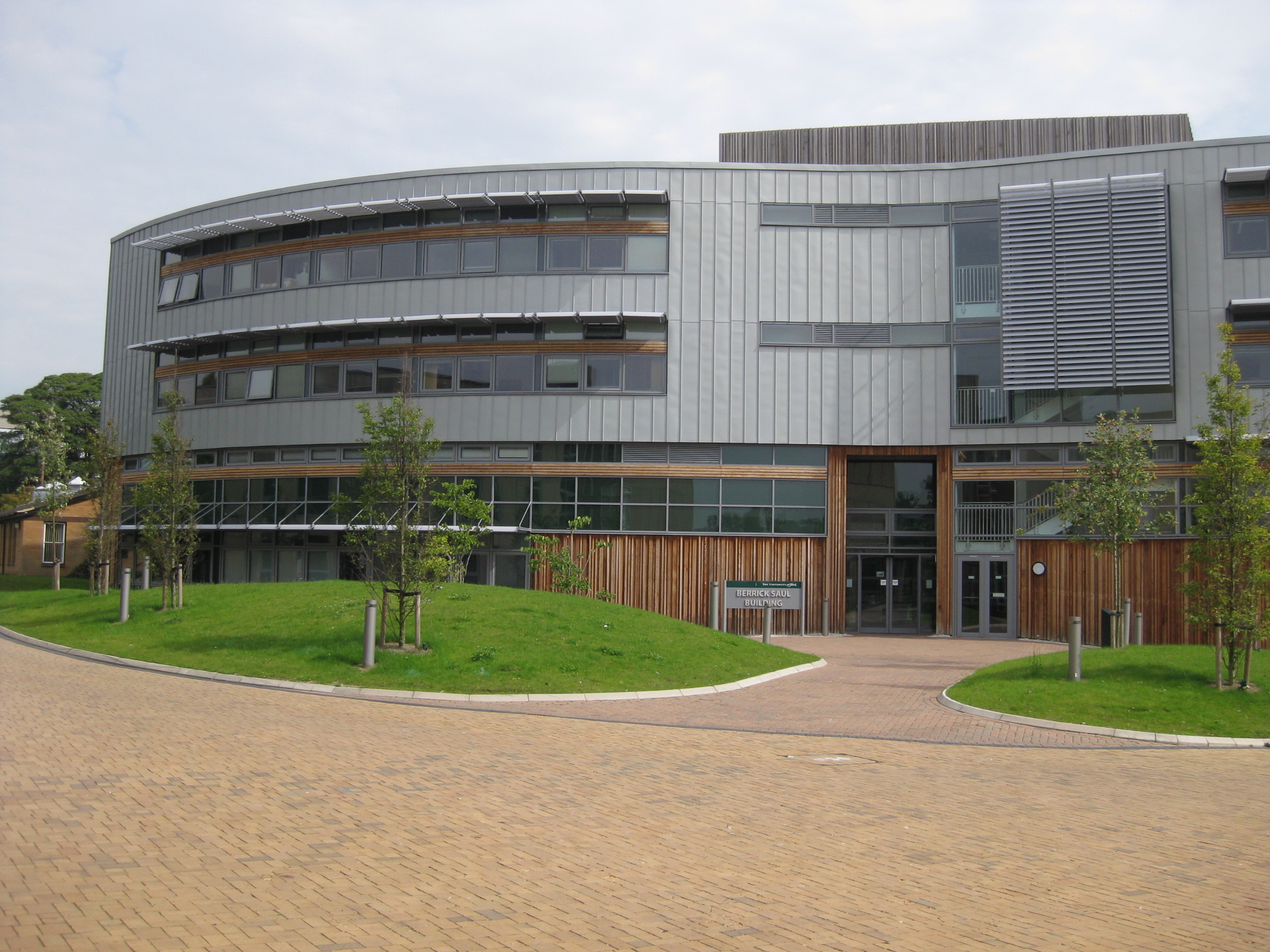 Berrick Saul Building, University of York